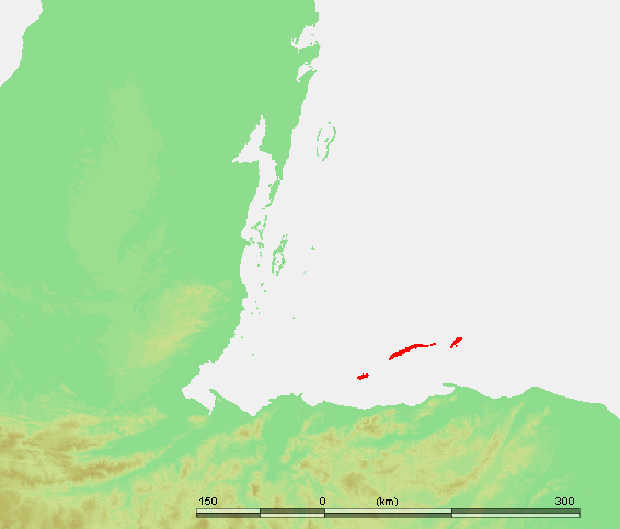 bay islands, Honduras